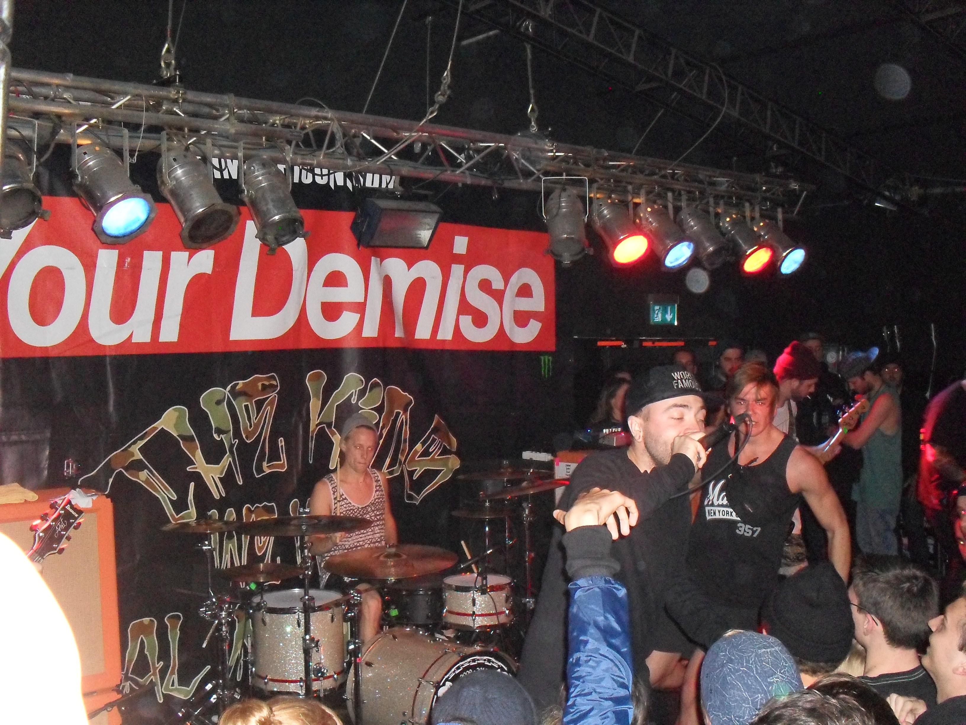 Your Demise live at Underground Cologne in October 15, 2013